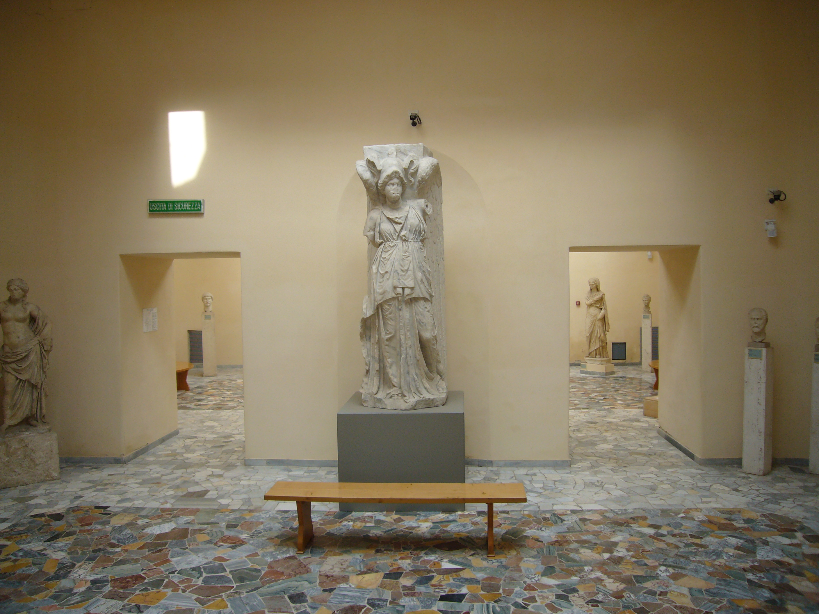 Statue of a winged goddess, usually recognized as a Minerva Victrix. Marble, Roman copy of the Domitian or Hadrian era after a Greek original. H. 2.4 m (94 ¼ in.), W. 0.8 m (31 ¼ in.), D. 0.95 m (37 ¼ in.). From the Temple of Jupiter in Ostia Antica.